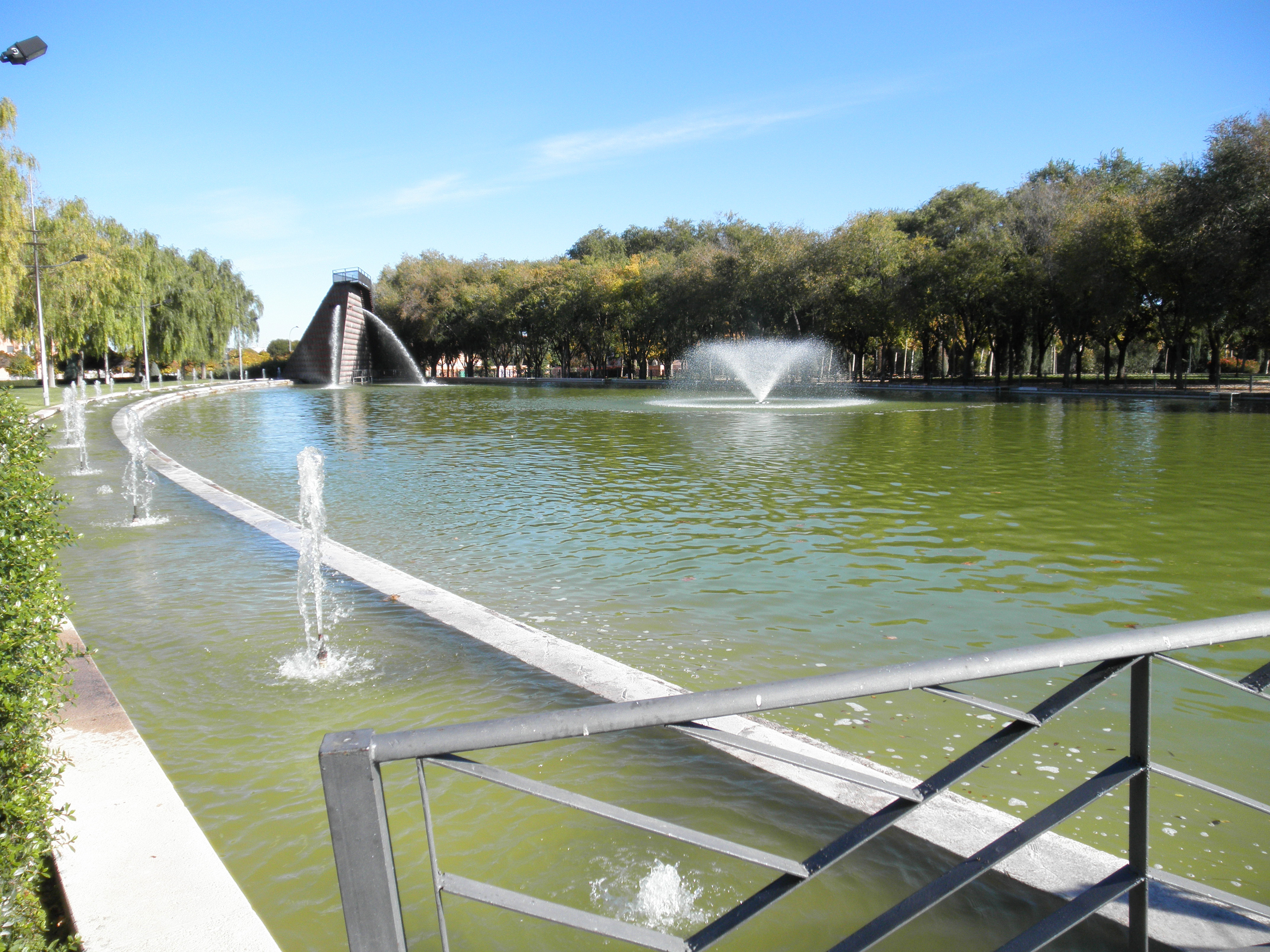 Lake partial view, Parque El Pilar (Ciudad Real), Spain